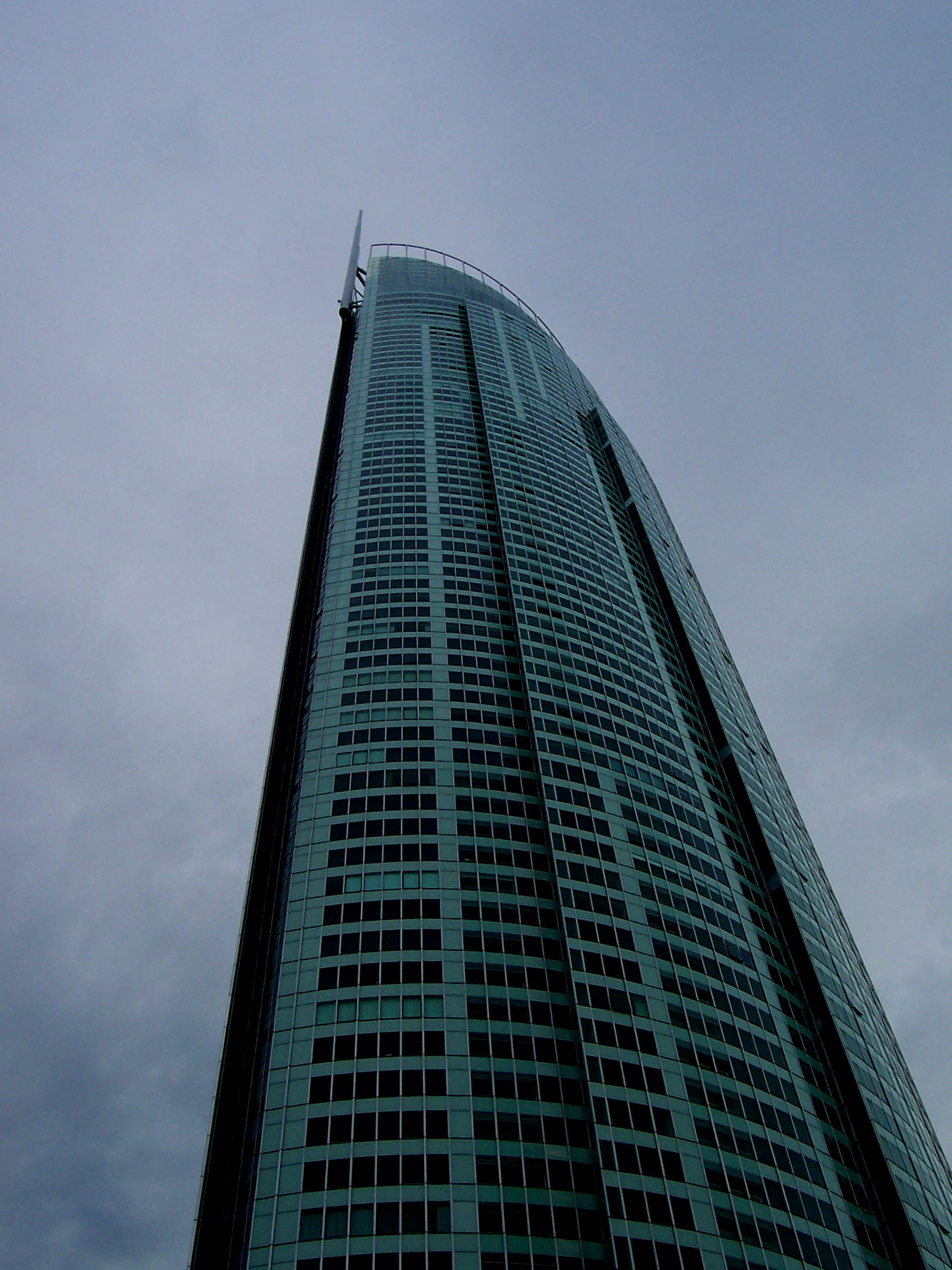 Q1 building